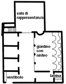 Schematic plan of the domus of Amore and Psiche in the archeological site of Ostia antica